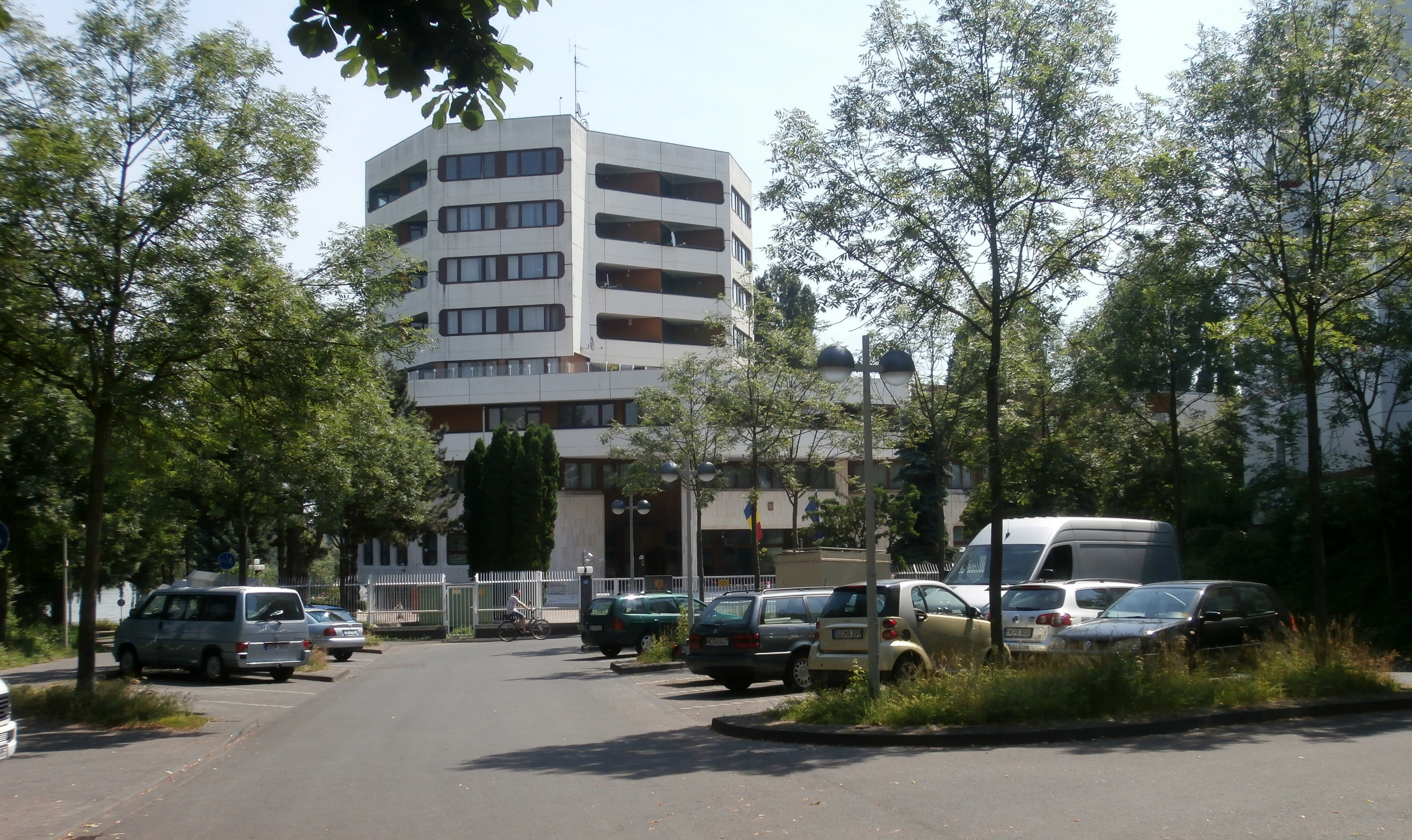 Consulate-general of Romania in Bonn, Legionsweg 14